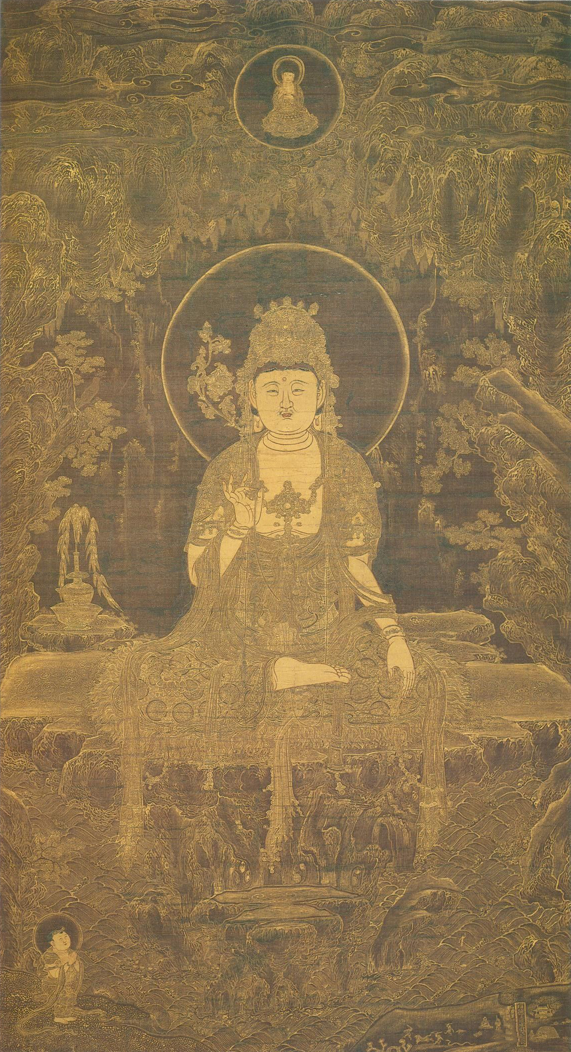 Shuyajin, Saifukuji, Tsuruga, Fukui, Japan